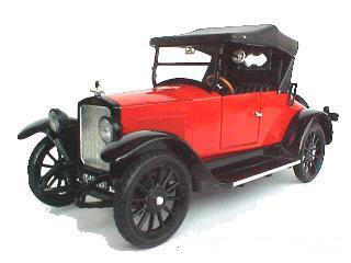 Cleveland Six Model 40 Roadster, body by Fisher (1920)